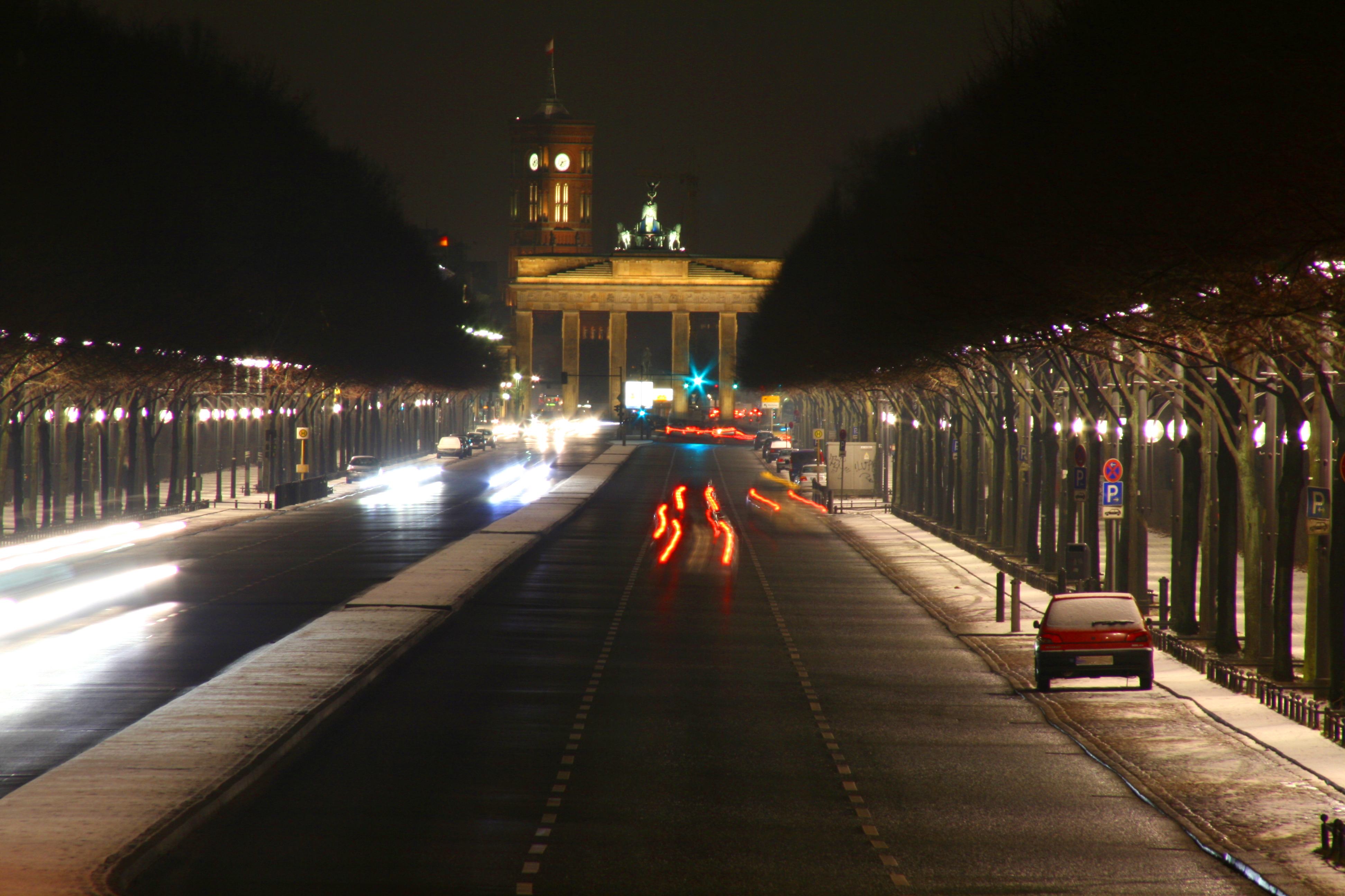 View east along the "Strasse des 17. Juni" towards Brandenburg Gate at night.